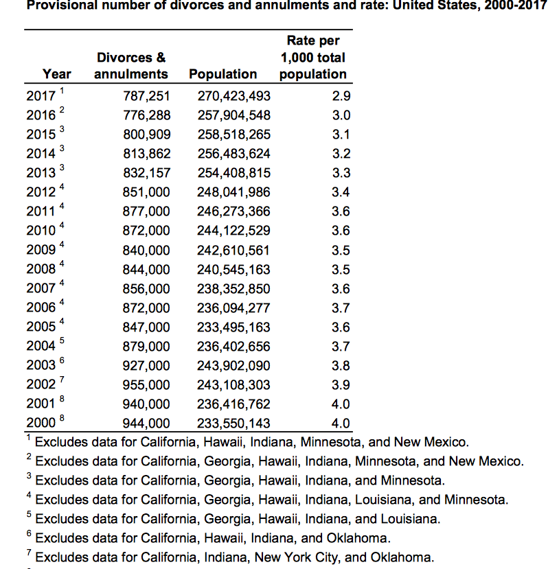 Data of Provisional number of divorces and annulments and rate in the United States, 2000-2017